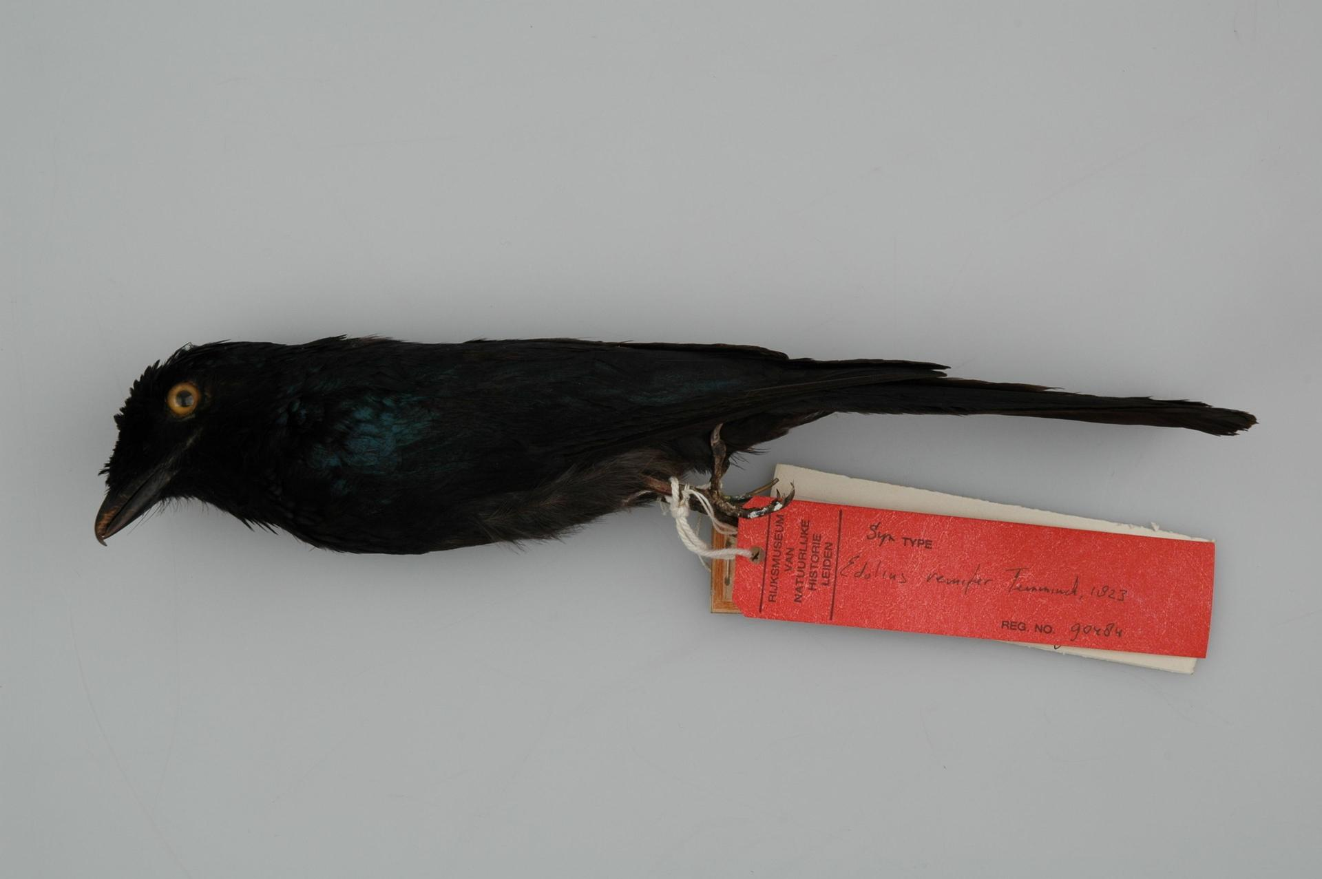 Dicrurus remifer Temminck, 1823